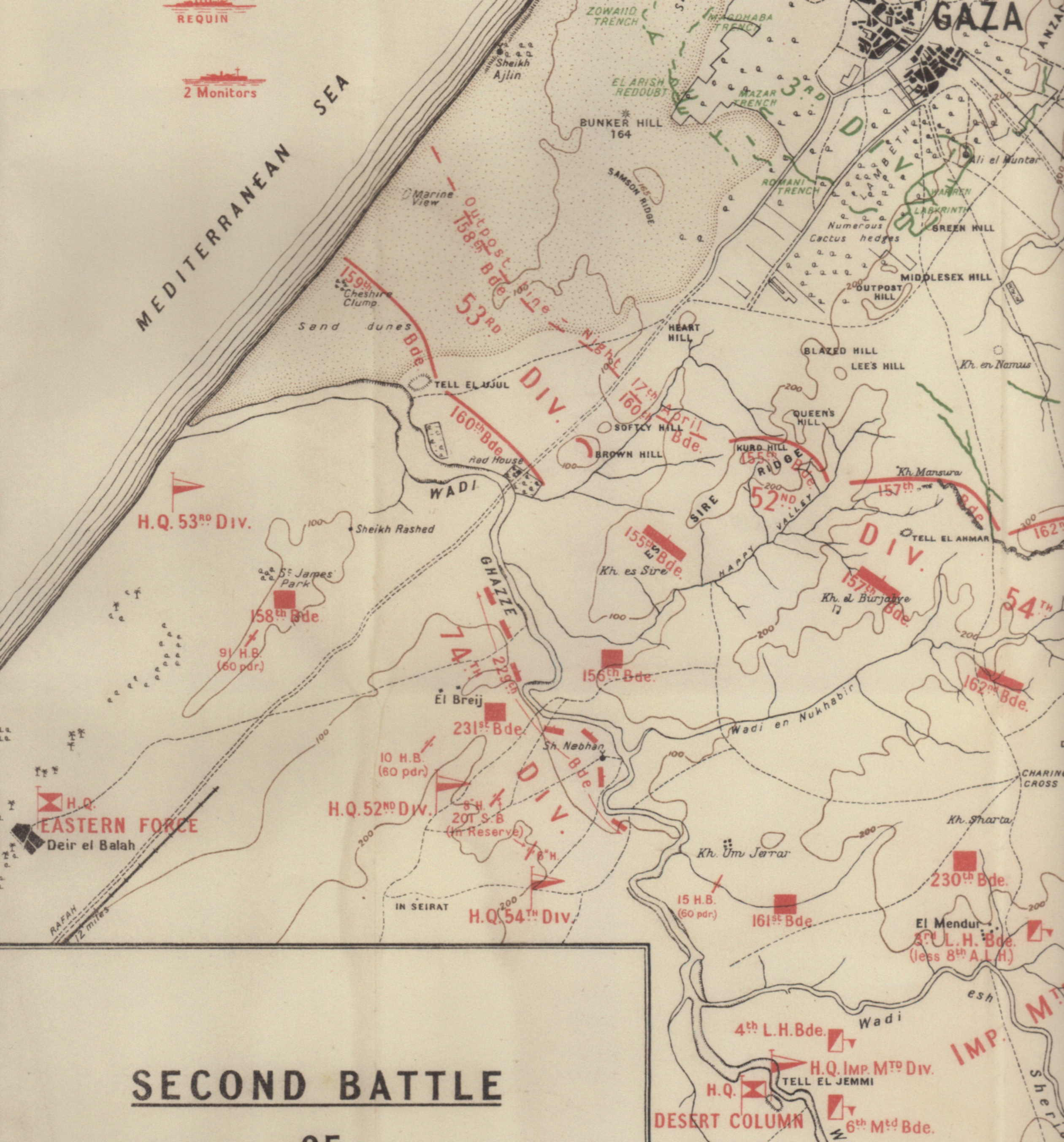 Falls Map 14 Second Battle of Gaza 17 April 1917 Other information Crown copyright